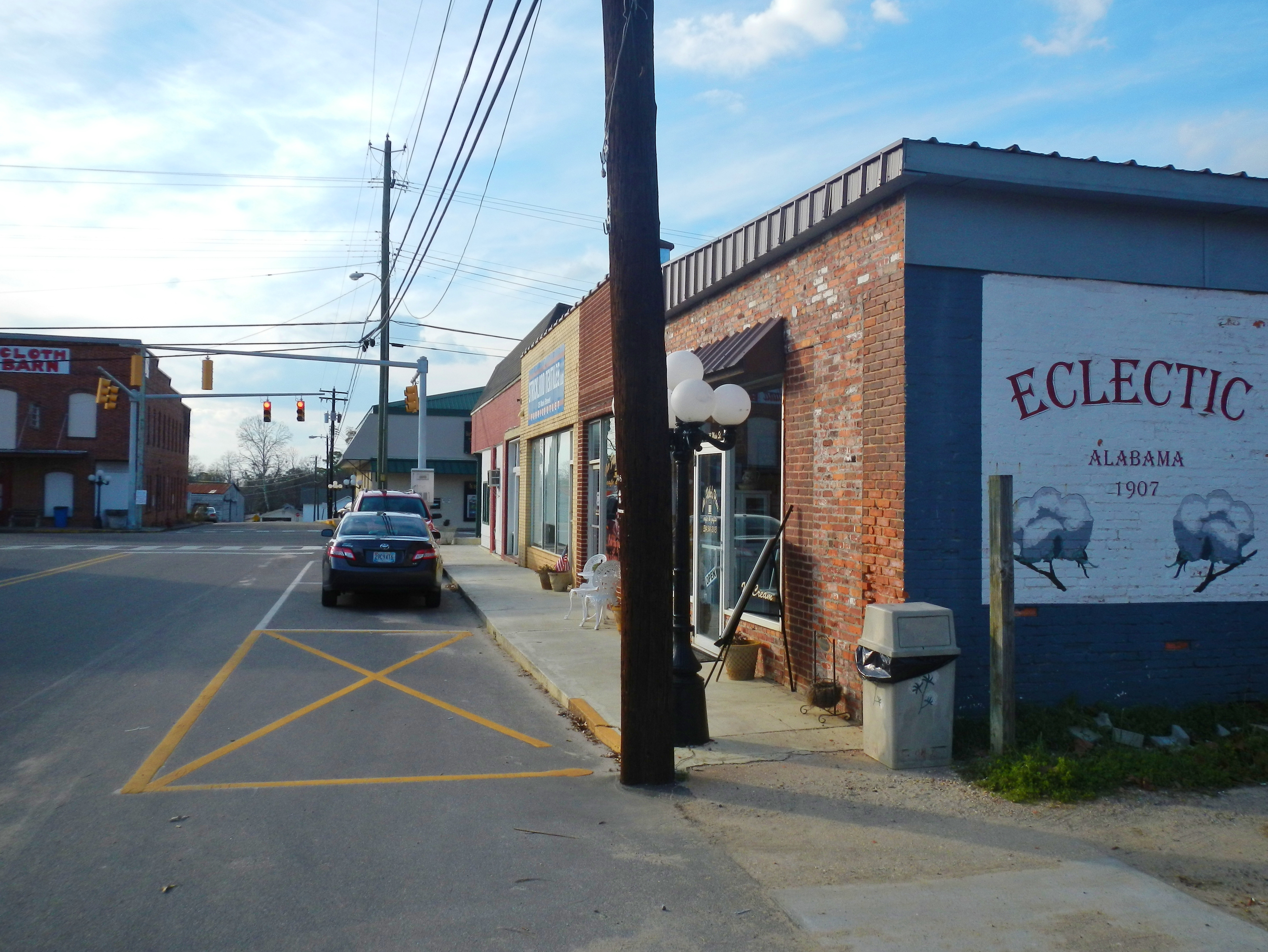 This is a photograph of downtown Eclectic, Alabama.